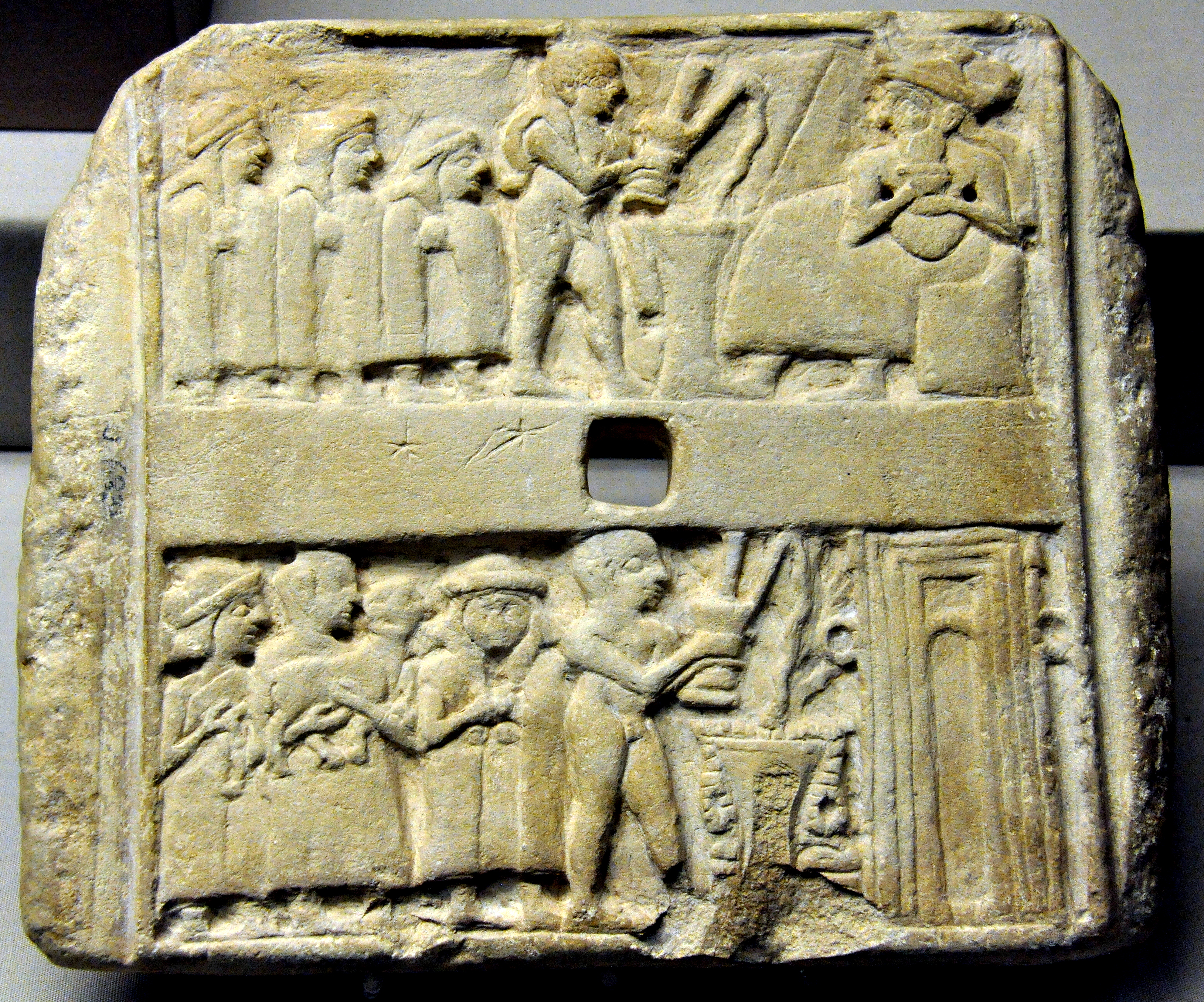 The upper register shows a naked priest followed by three worshippers. The priest pours an unknown liquid offering from a spouted vessel into a stemmed dish or stand, in front of a horned god figure. In the lower register, there are three worshippers; one of them carries an animal offering and one of them is a woman who is shown "full-faced." She may be a priestess or she may represent the donor of the plaque. The priest's libation is being poured in front of an unknown temple. The plaque was excavated at Ur, in the ruins of one of the residences of the high priestess of the moon god Nanna. Early dynastic period, circa 2500 BCE, from Ur, Mesopotamia, Iraq. The British Museum, London.